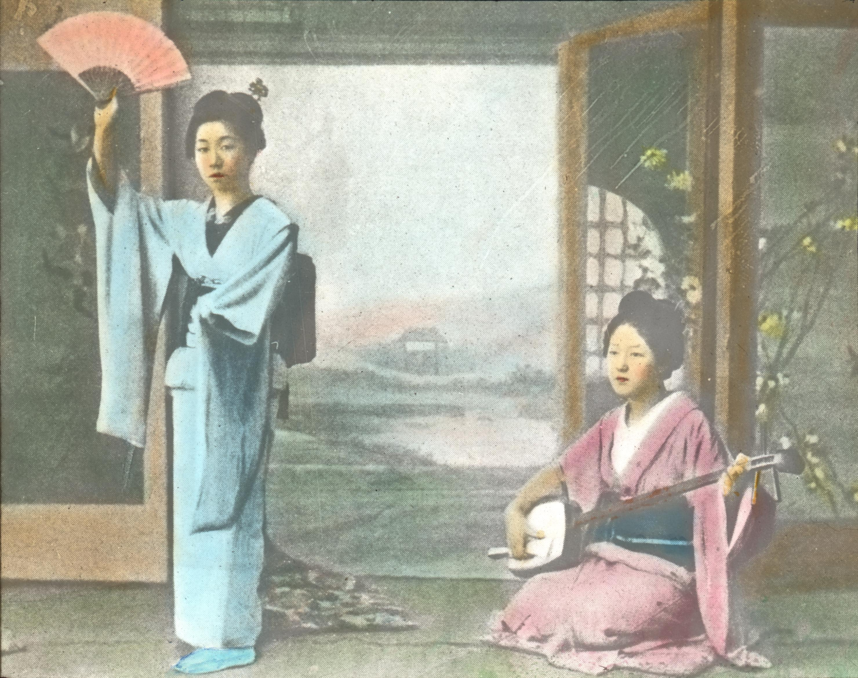 Image Description from historic lecture booklet: "A Geisha House is not generally a large establishment-- six or seven to a dozen Geisha's and half as many musumes make it up. The mother or keeper is generally an old geisha, often a once celebrated dancer and entertainer, as one may guess fro the many middle-aged or aging men who will sit down beside her and swap stories with her about merry old times of other days." Original Collection: Visual Instruction Department Lantern Slides Item Number: P217:set 060 022 You can find this image by searching for the item number by clicking here. Want more? You can find more digital resources online. We're happy for you to share this digital image within the spirit of The Commons; however, certain restrictions on high quality reproductions of the original physical version may apply. To read more about what “no known restrictions” means, please visit the Special Collections & Archives website, or contact staff at the OSU Special Collections & Archives Research Center for details.